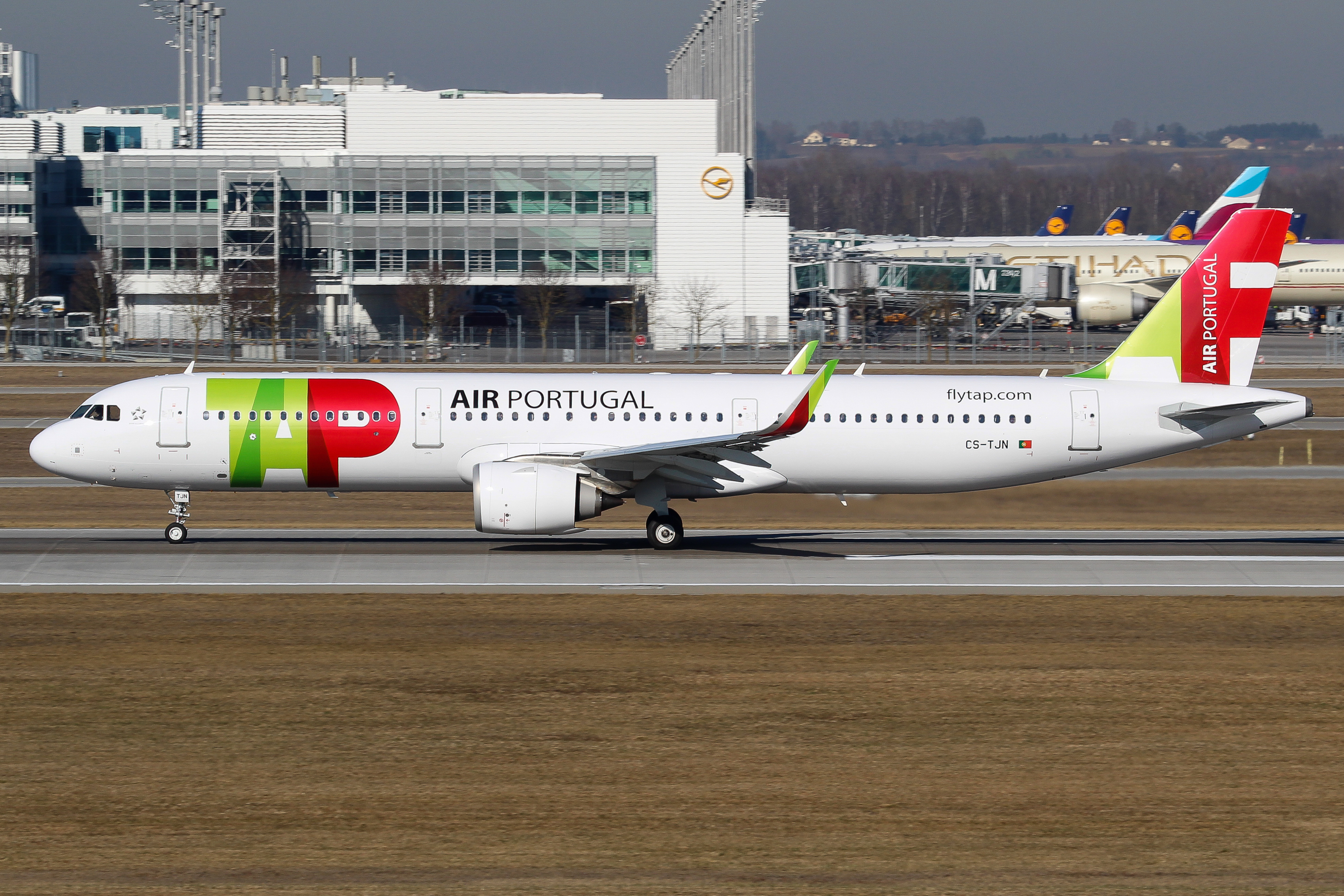 TAP Air Portugal A321-200 during takeoff at Munich airport.